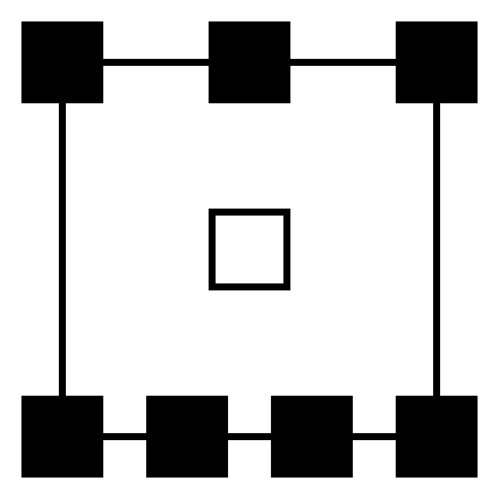 Label for 7.1 extended surround sound. created on Benutzer Diskussion:Andreas -horn- Hornig/Bildwerkstatt